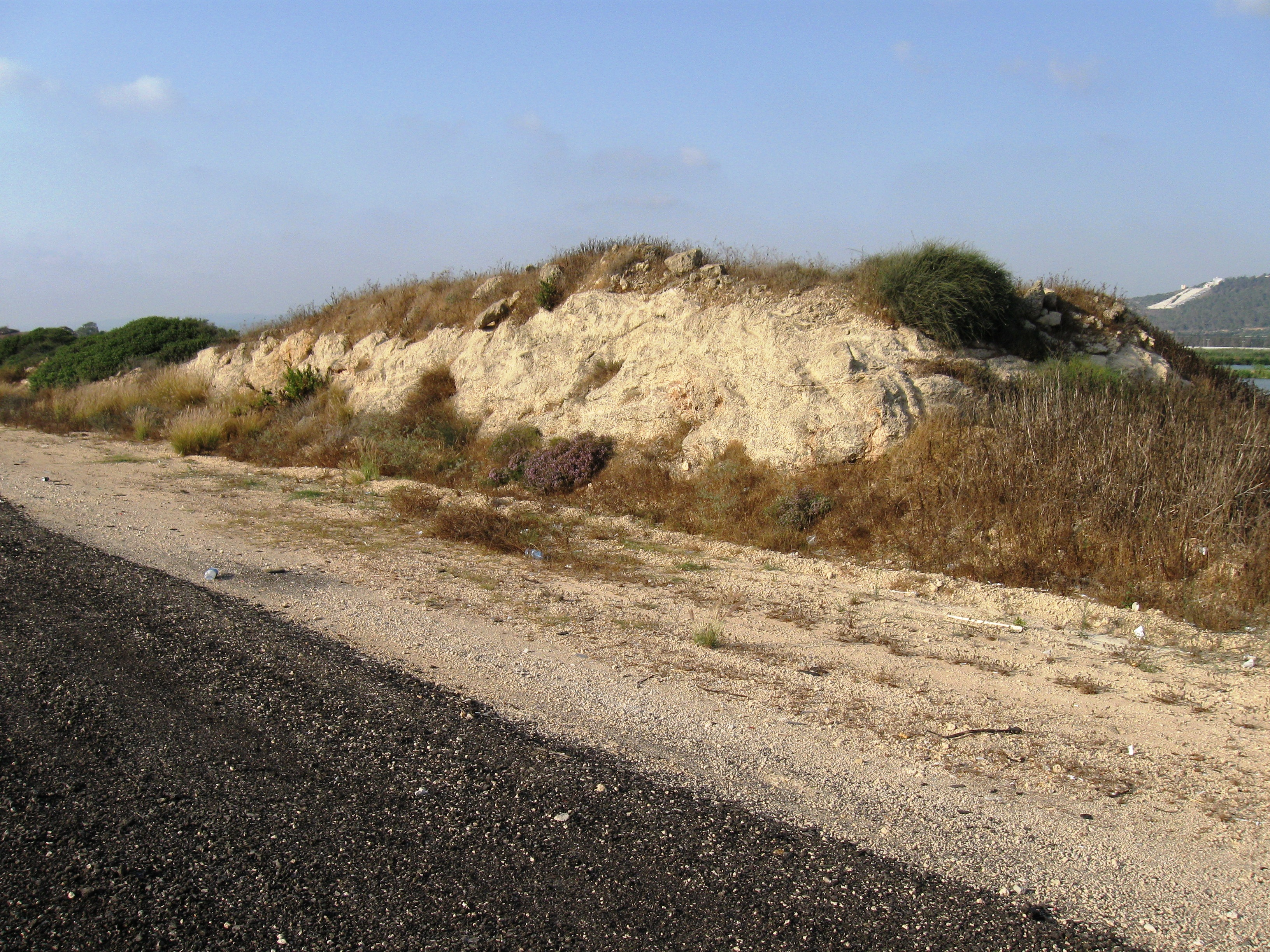 Calcareous_sandstone_a_Route_2_near_Zicron_jacov